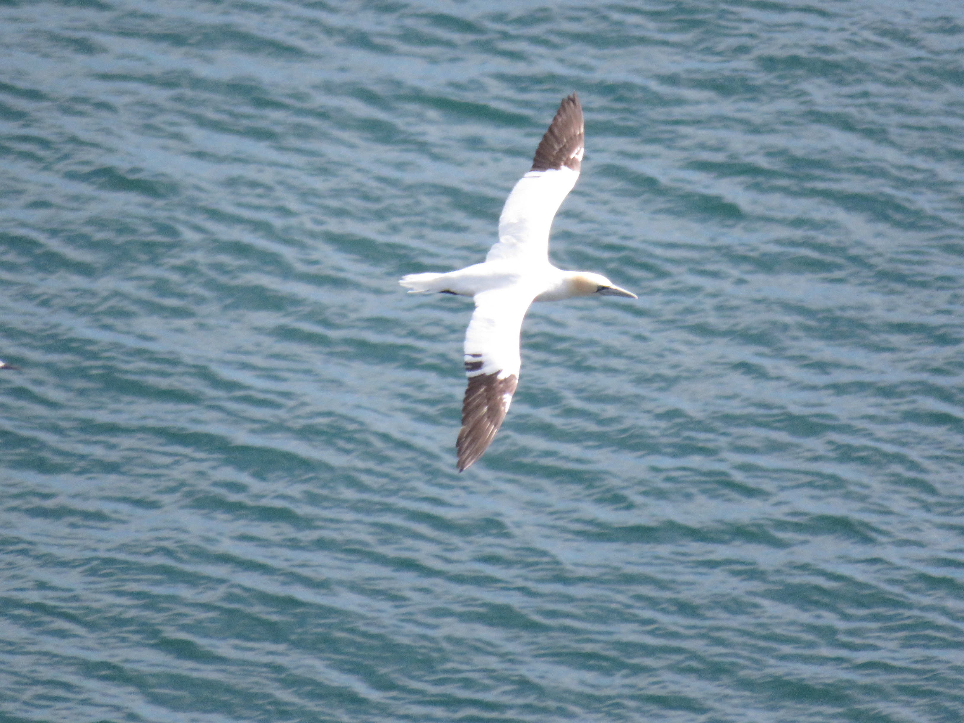 gannet in flight, RSPB Bempton